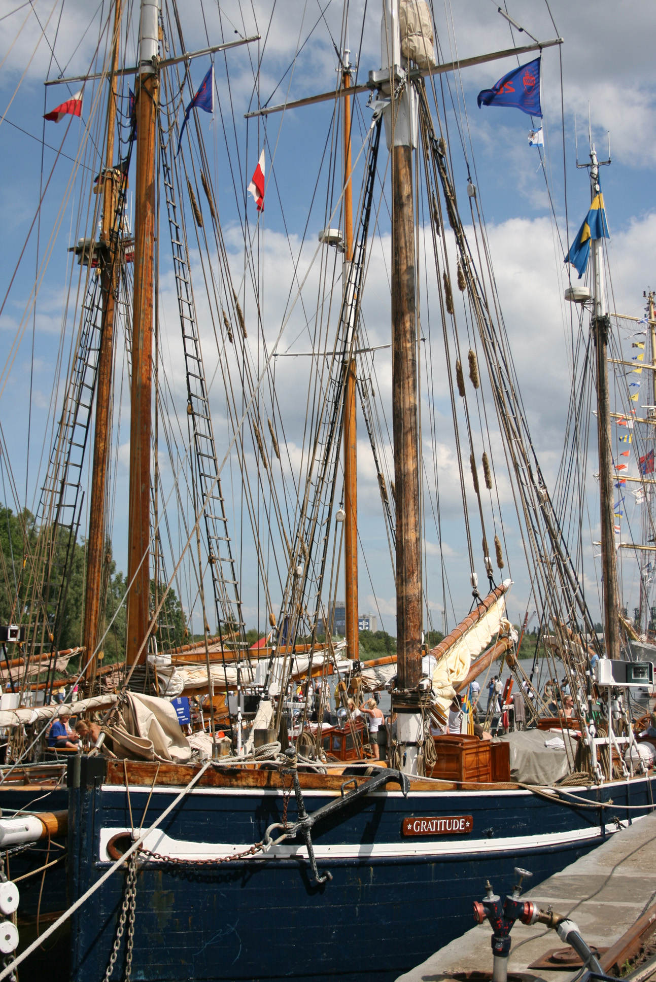 Gratitude , The Tall Ships' Races, Szczecin 2007 This is an image of the protected Swedish ship Gratitude, with call sign SDIG .